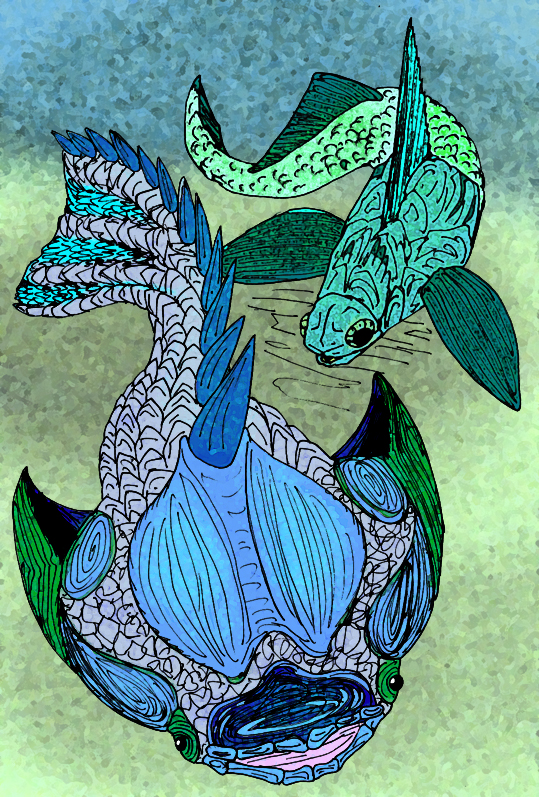 My reconstruction of the flattened, aberrant pteraspid heterostracan Drepanaspis gemuendenensis, and the primitive arthrodire placoderm, Tiaraspis, of Early Devonian Germany. (C) Stanton F. Fink